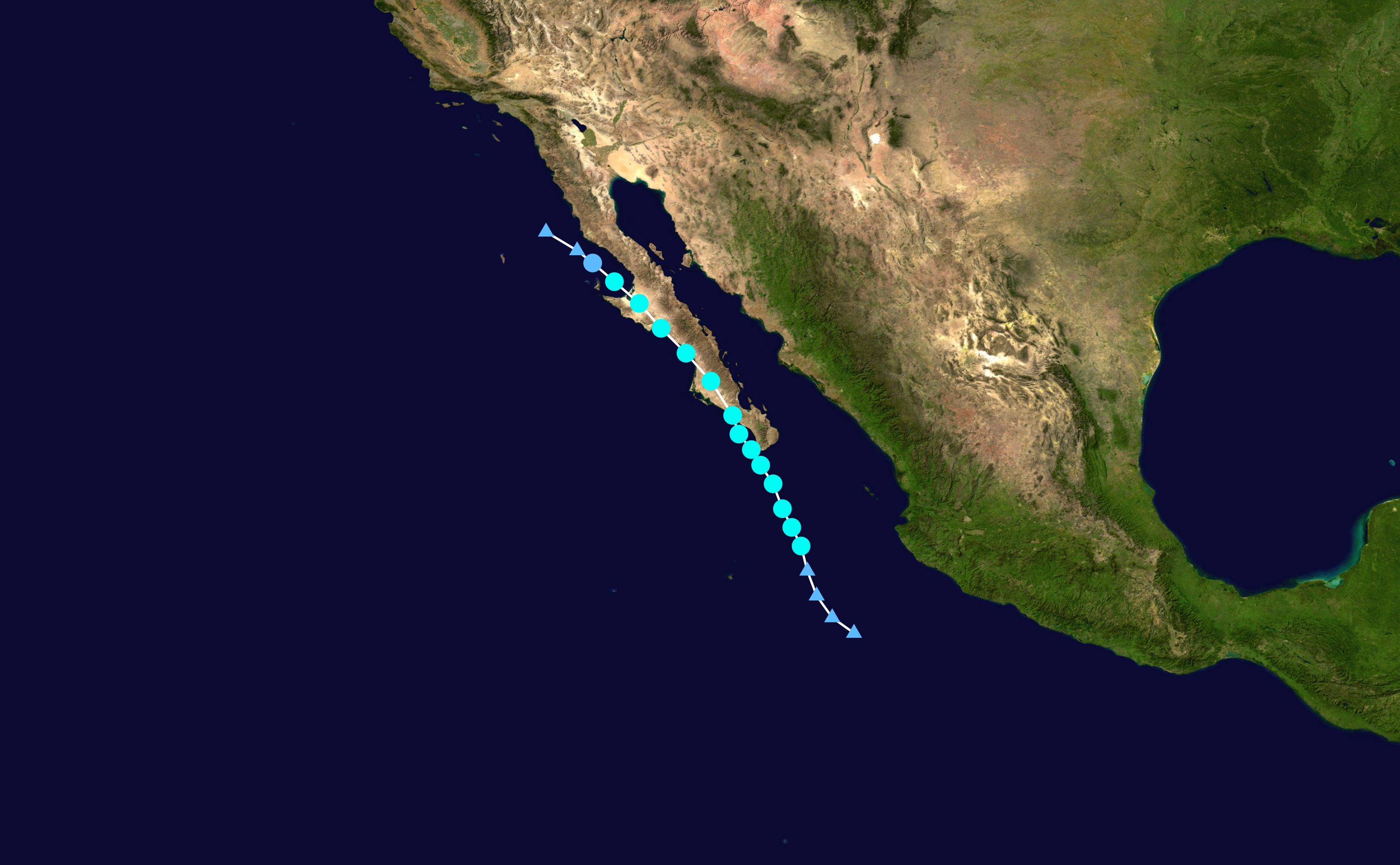 Track map of Tropical Storm Lidia of the 2017 Pacific hurricane season. The points show the location of the storm at 6-hour intervals. The colour represents the storm's maximum sustained wind speeds as classified in the Saffir–Simpson scale (see below), and the shape of the data points represent the nature of the storm, according to the legend below. Saffir–Simpson scale Tropical depression≤38 mph≤62 km/h Category 3111–129 mph178–208 km/h Tropical storm39–73 mph63–118 km/h Category 4130–156 mph209–251 km/h Category 174–95 mph119–153 km/h Category 5≥157 mph≥252 km/h Category 296–110 mph154–177 km/h Unknown Storm type Tropical cyclone Subtropical cyclone Extratropical cyclone / Remnant low / Tropical disturbance / Monsoon depression